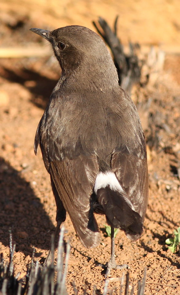 Mountain wheatear or mountain chat - female, Oenanthe monticola, at Suikerbosrand Nature Reserve, Gauteng, South Africa